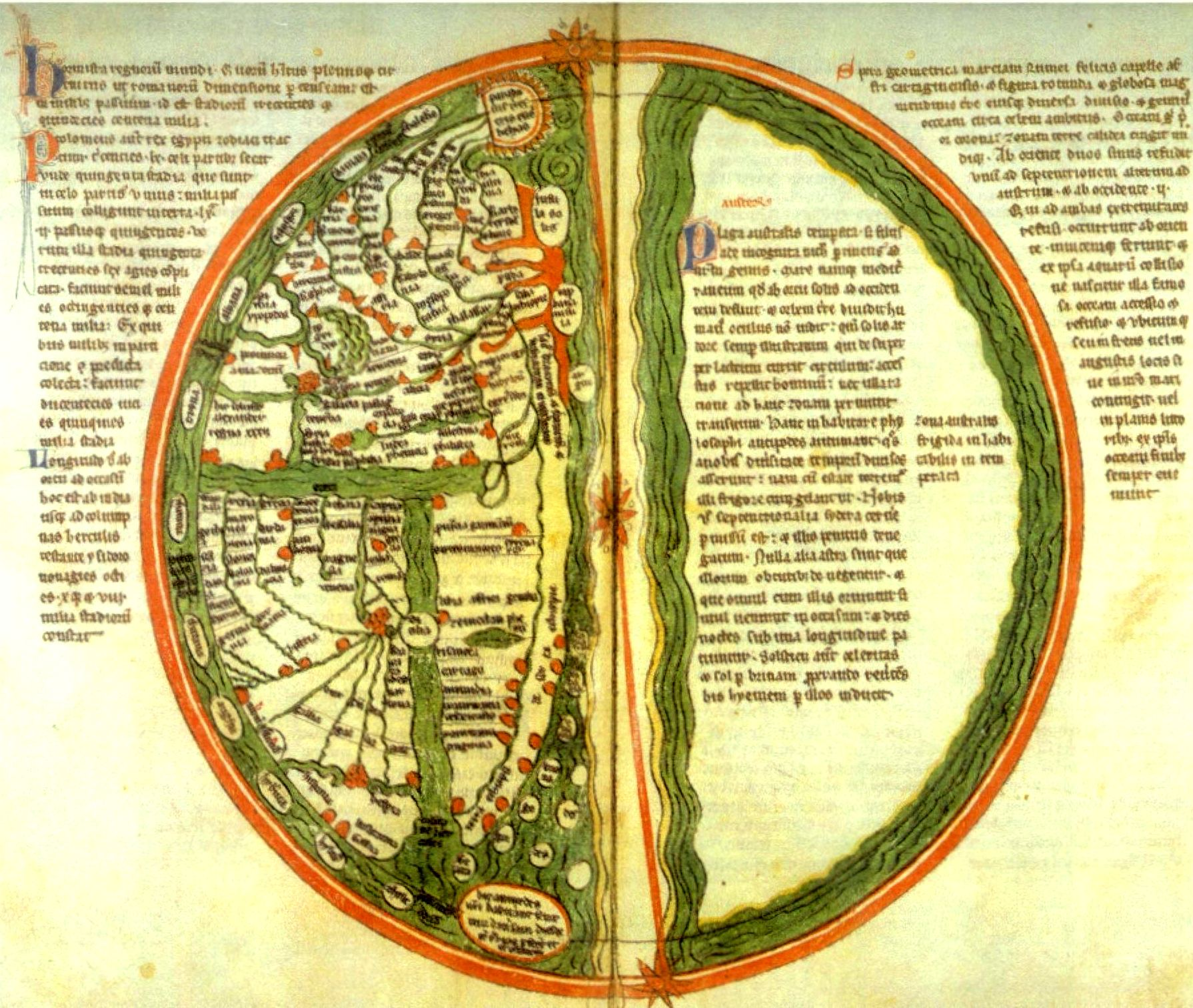 World map from the Liber Floridus of Lambert of Saint-Omer.